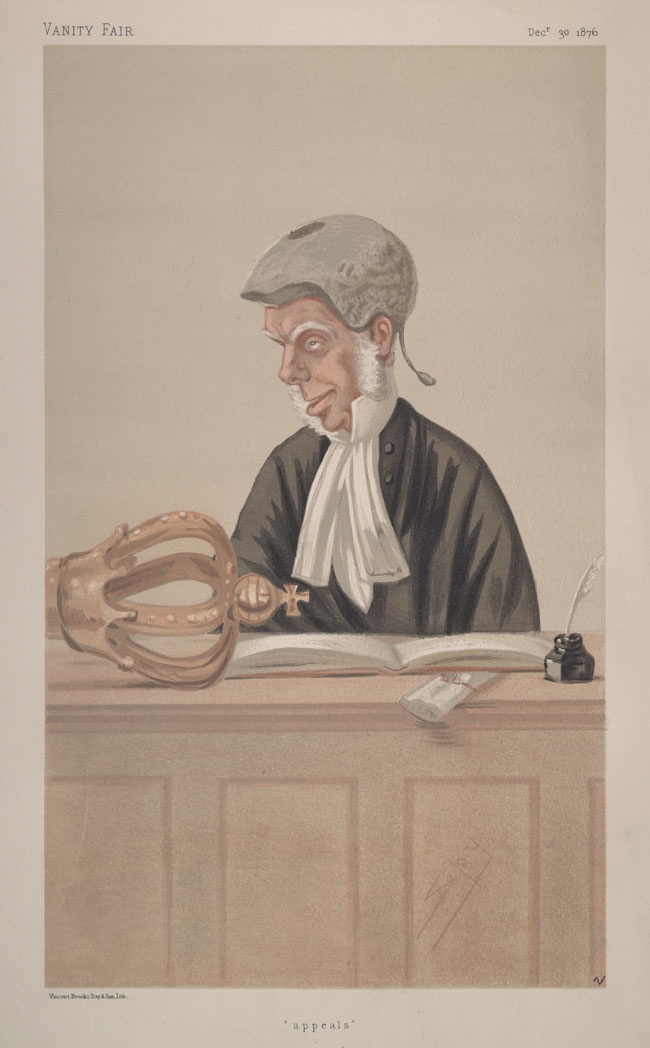 Judges No.13: Caricature of The Rt Hon Sir George Mellish DCL (1814–1877), a judge. Caption reads: "appeals"